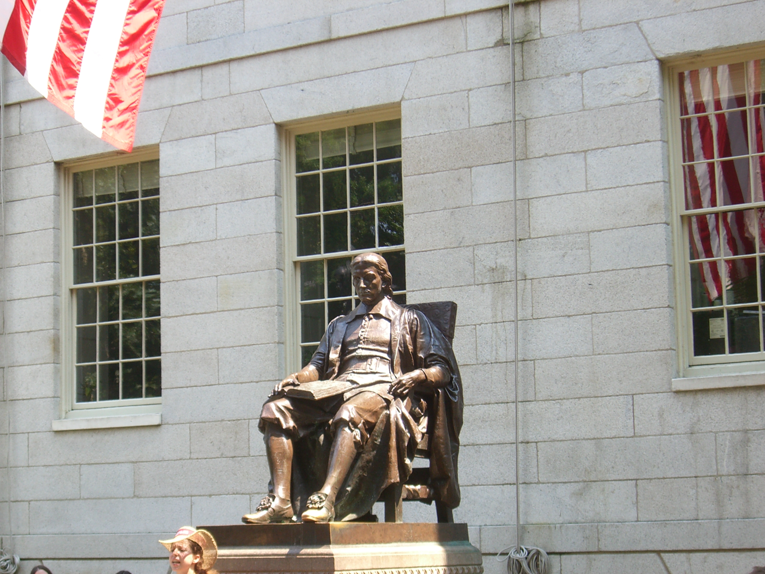 Boston, Massachusetts, USA